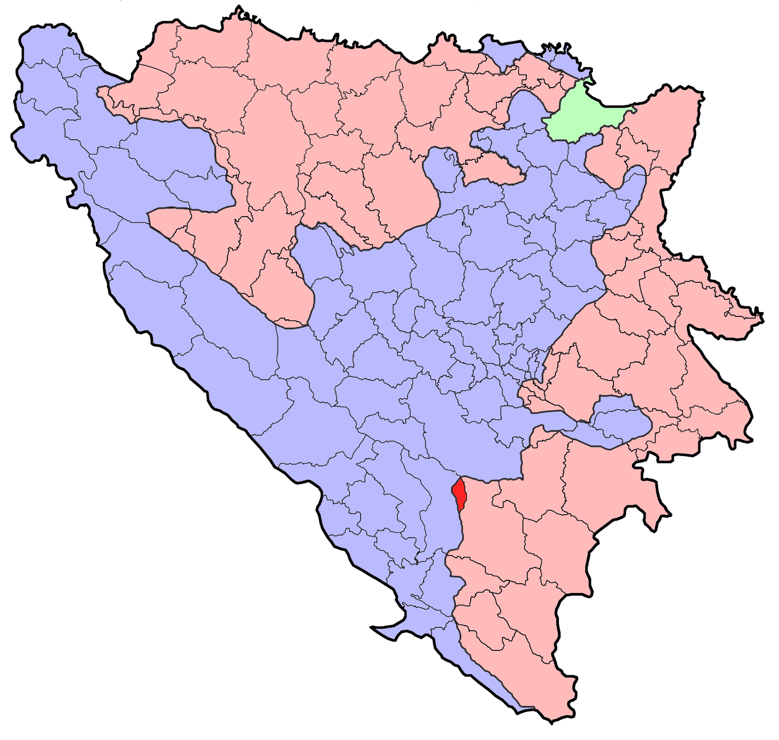 Location of Istočni Mostar municipality in Bosnia and Herzegovina.